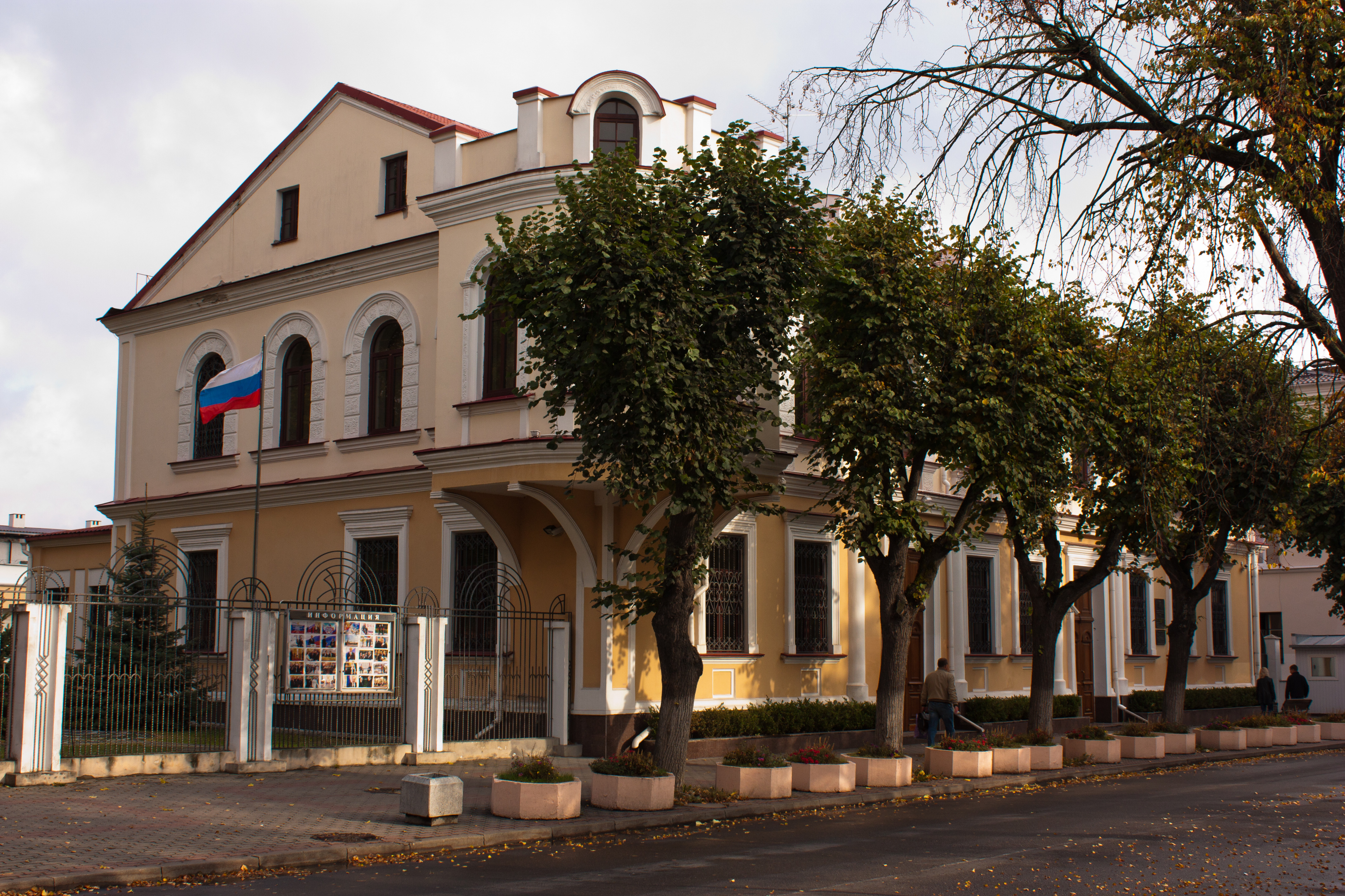 Беларуская (тарашкевіца): Будынак. г. Берасьце This is a photo of Belarusian heritage monument. Reference number: 112Г000020 ( WLM)